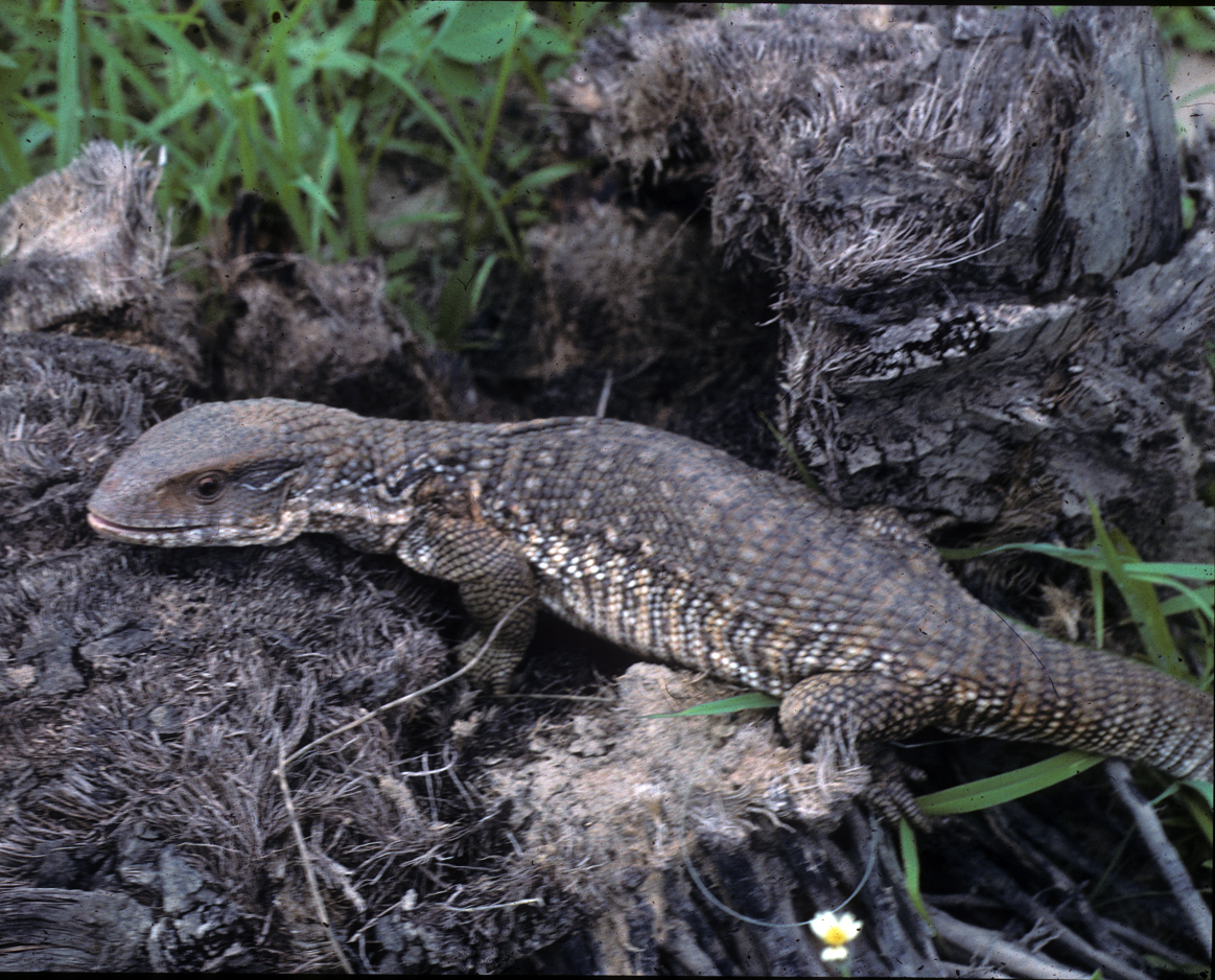 Varanus exanthematicus in coastal plain of Ghana